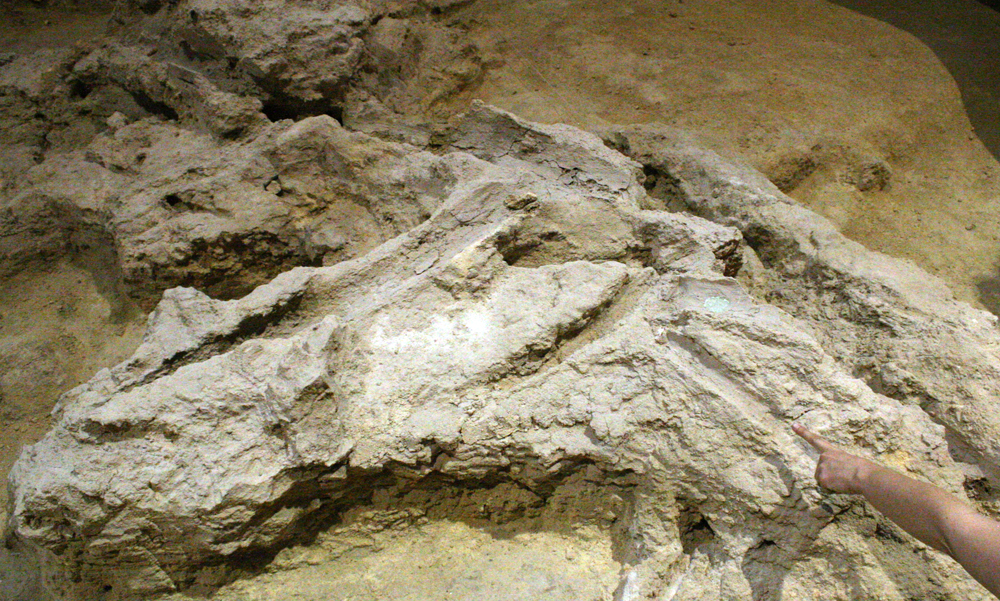 fossil wood negatives in abric Romaní prehistoric site, Capellades, Spain, shot during the International workshop "The Neanderthal Home: Spatial and Social Behaviours", October 2009